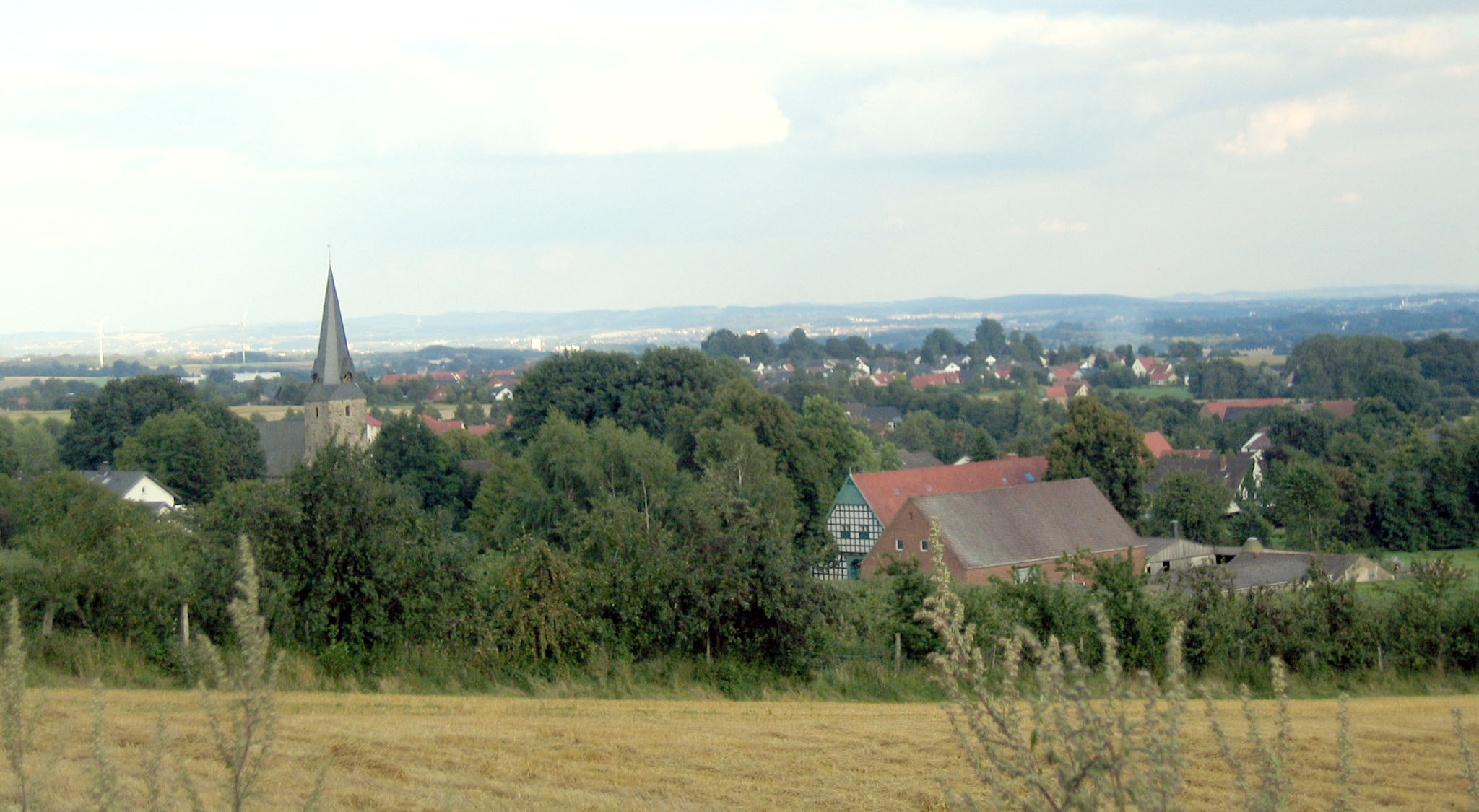 View over the town of Rödinghausen, Germany, from southern slope of Wiehengebirge below youth hostel